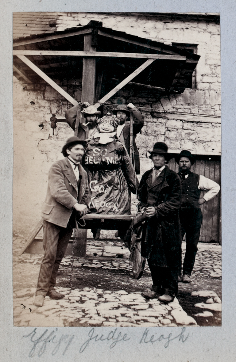 Really need help with this one. It's an effigy of Judge Keogh (William Keogh), an unpopular judge of land cases in the West of Ireland. Our catalogue says this was taken circa 1880, but a really swift search shows that burning effigies of Judge Keogh is referred to earlier and later than 1880. P.S. Most of Thomas J. Wynne's photos were taken in and around Castlebar, Co. Mayo. Anyhow, let's see what the Flickr hivemind can produce on this one, which has a really Wild West flavour to it... Thanks to John Spooner, we now have a relatively accurate date for this photo. Have a look at all of John's comments below for lots of information on the infamous Judge Keogh from contemporary newspaper reports in the Freeman's Journal and from the book Famous Irish Trials... Date: June 1872 NLI Ref.: WYN13